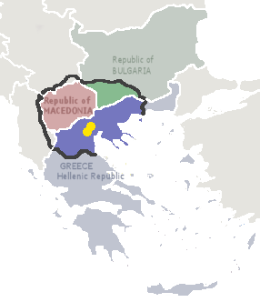 Map to use for geographic disambiguation of the word Macedonia